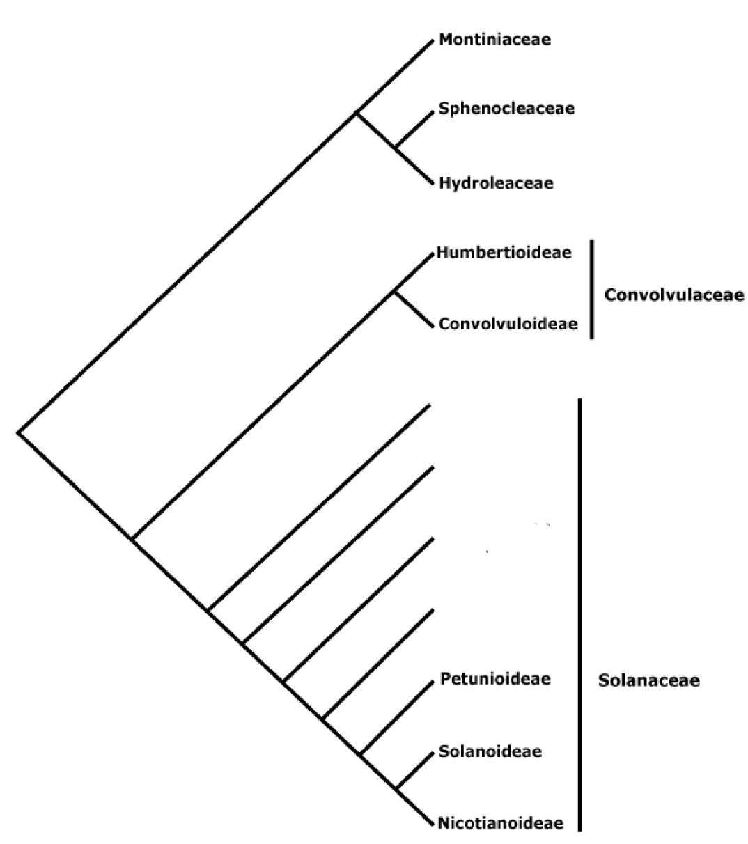 Filogenia das Solanaceae e Convolvulaceae